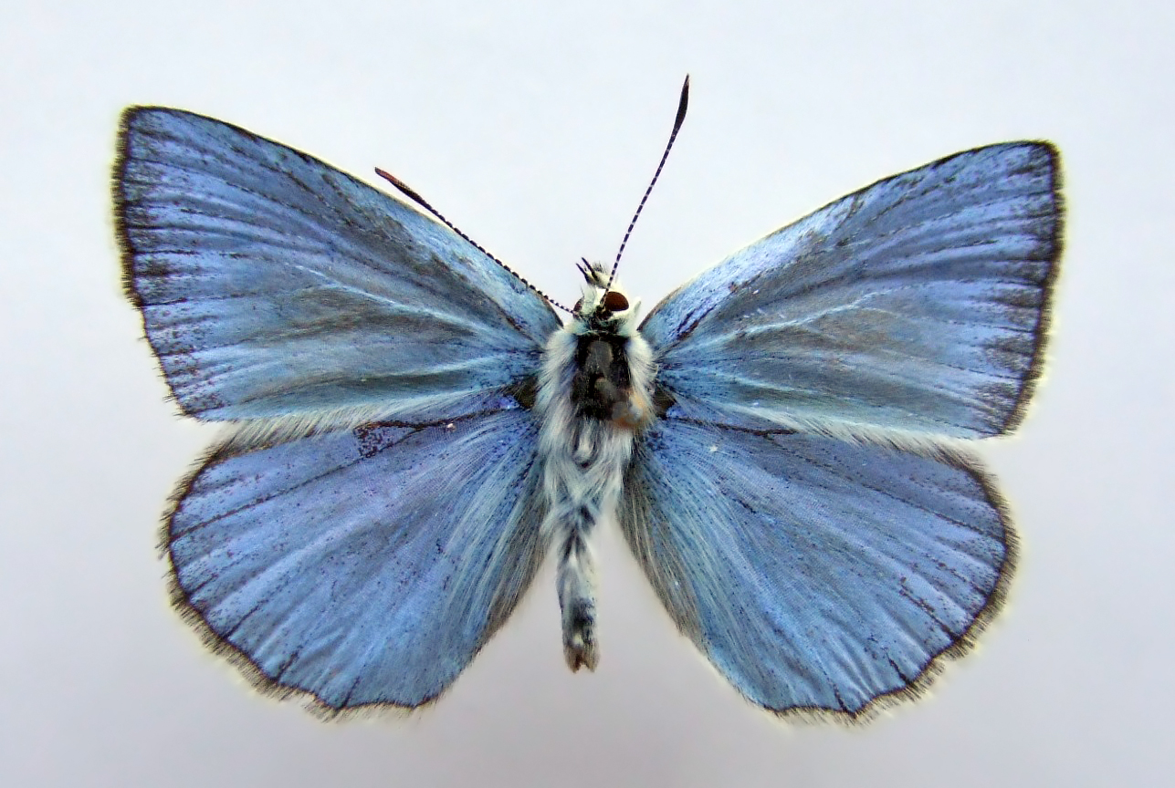 Wing upperside view of a male Saimbeyli Blue (Polyommatus theresiae). Saimbeyli - Adana, Turkey.